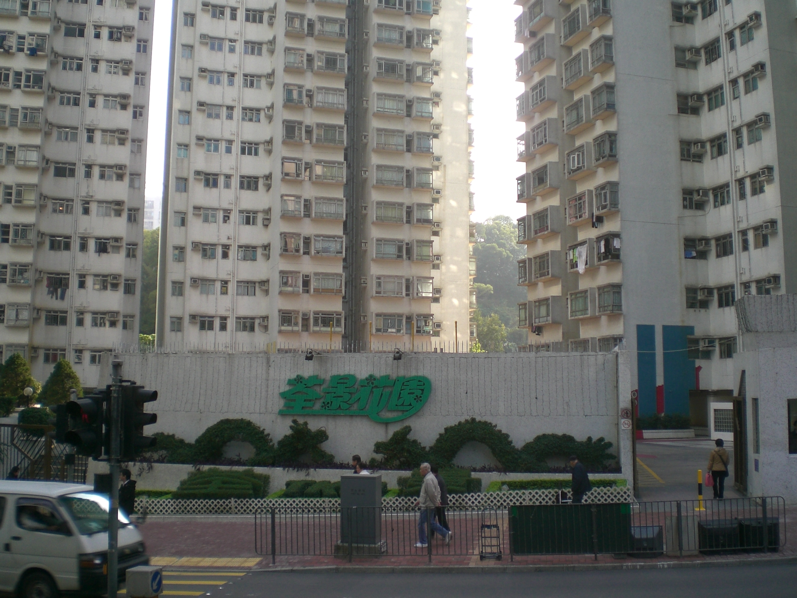 荃灣 荃景圍 荃景花園出入口